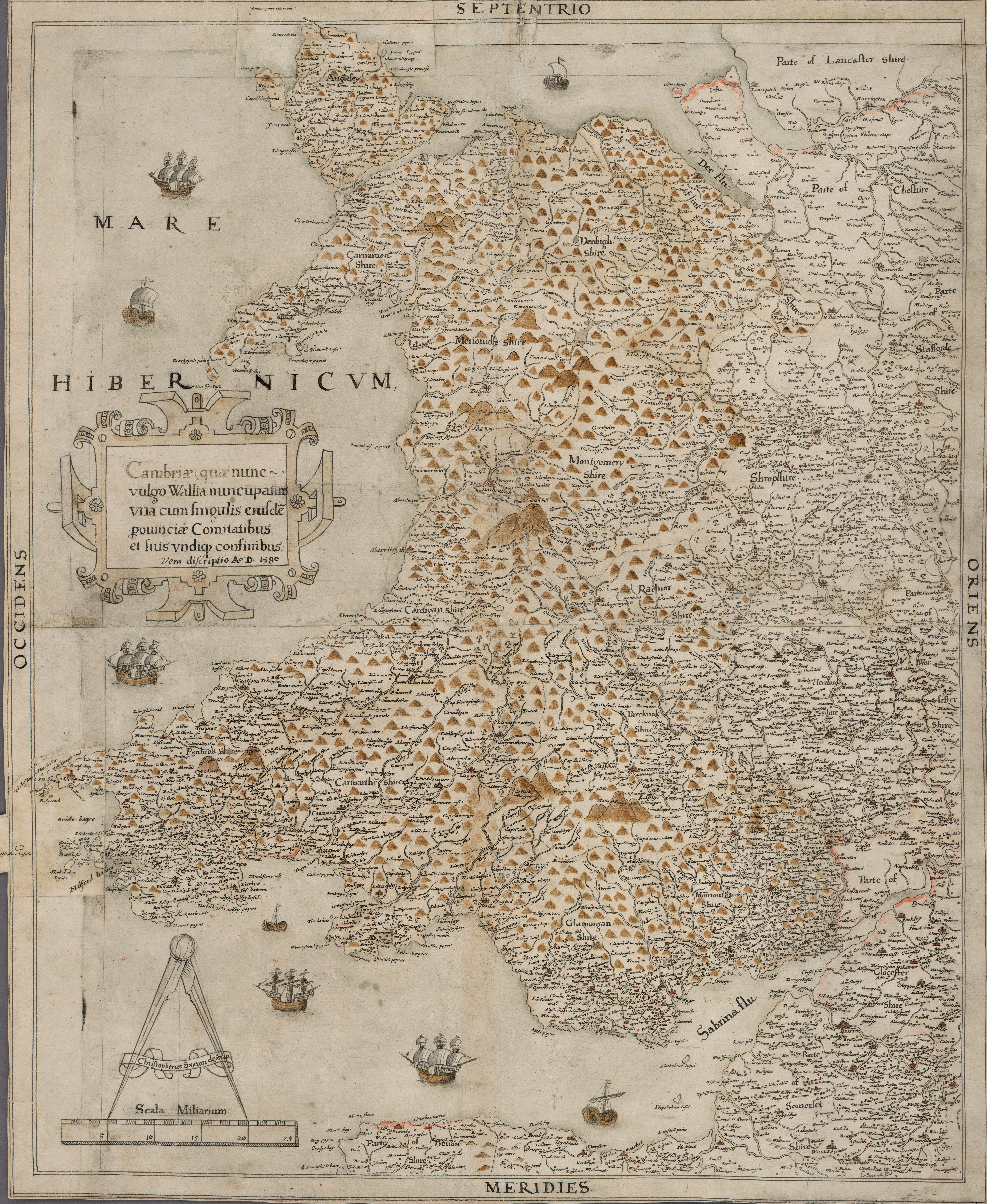 Saxton’s Proof Map of Wales (1580) - never published but much of the information appears in Saxton’s wall map of England and Wales (1597).